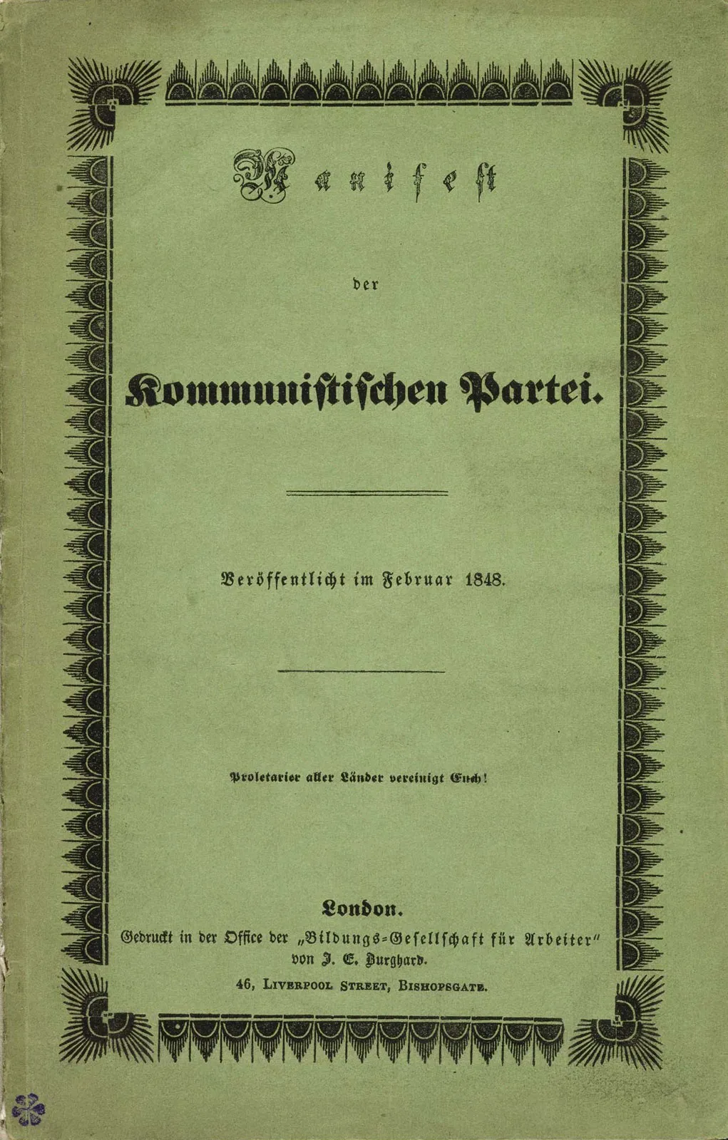 Cover of the Communist Manifesto’s initial publication in February 1848 in London.